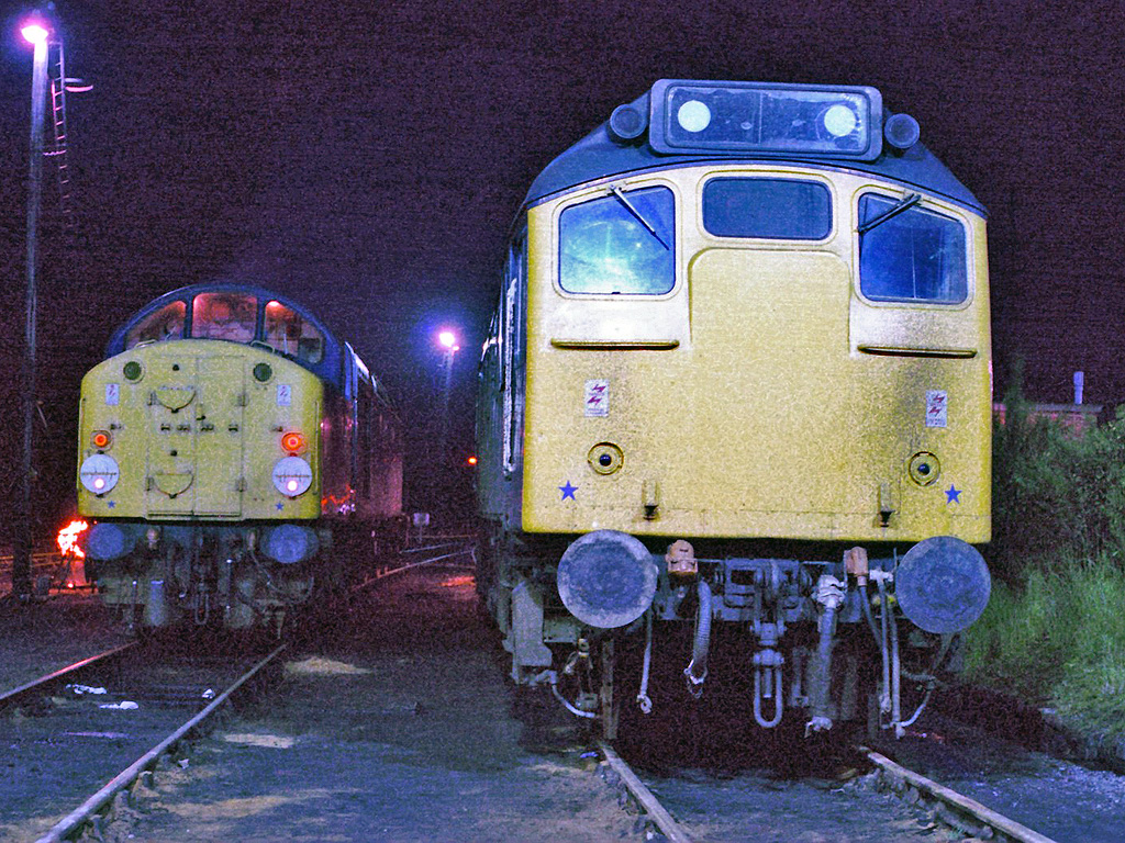 British Railways English Electric Type 4 1Co-Co1 class 40 diesel-electric locomotive number 40034 of Longsight DTMD and British Railways Type 2 Bo-Bo class 25/1 diesel-electric locomotive number 25042 of Crewe DTMD stand outside Northwich Motive Power Depot. Friday 19th June 1981